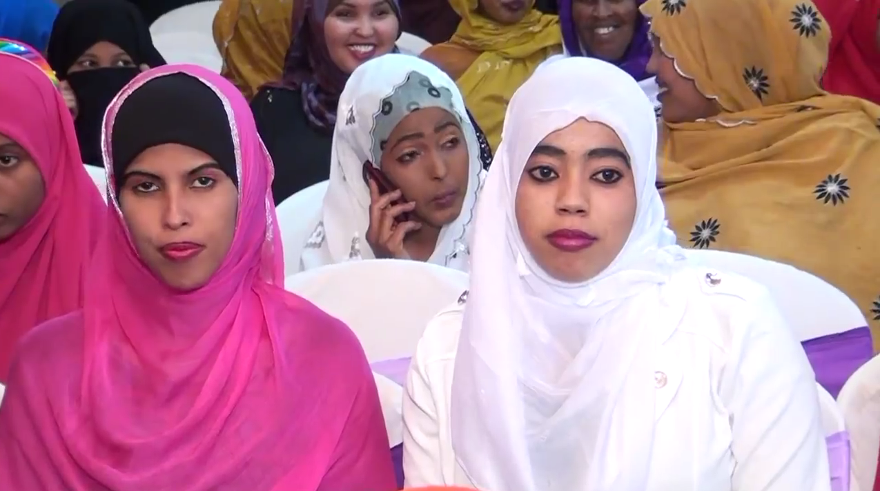 Somali women at a 2013 Somali music event.